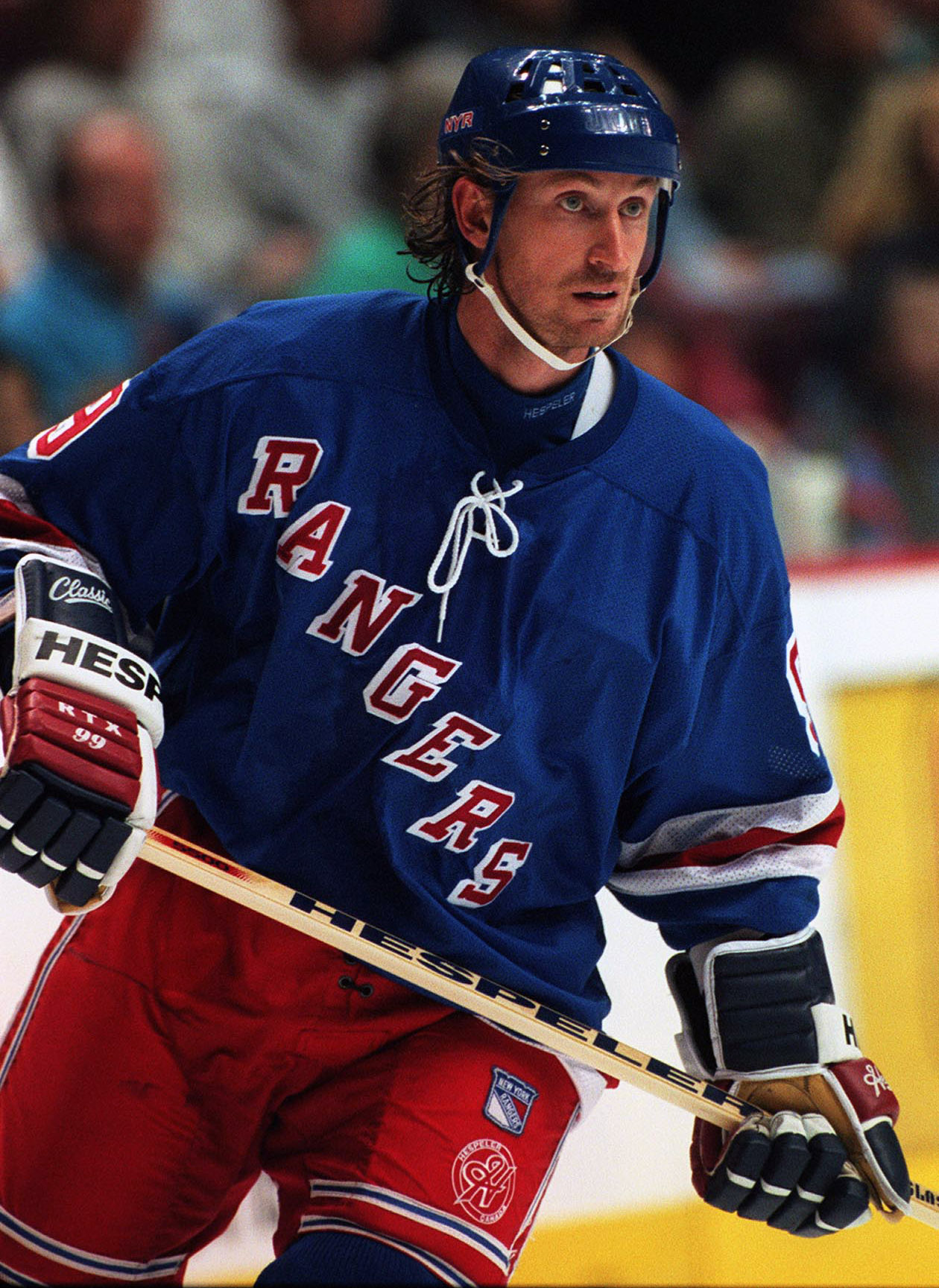 Wayne Gretzky, New York Rangers